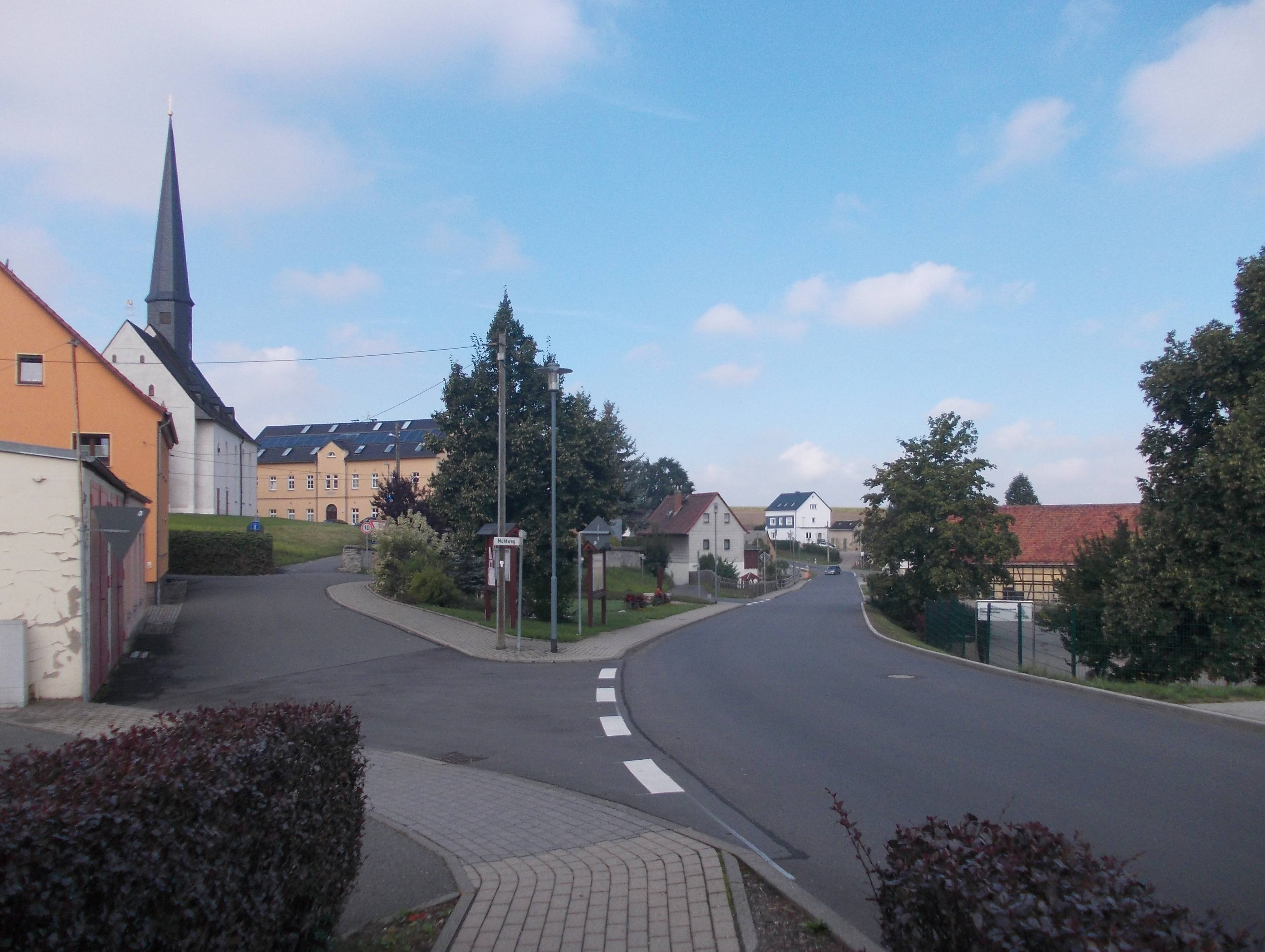 Centre of the village of Dennheritz (Zwickau district, Saxony)